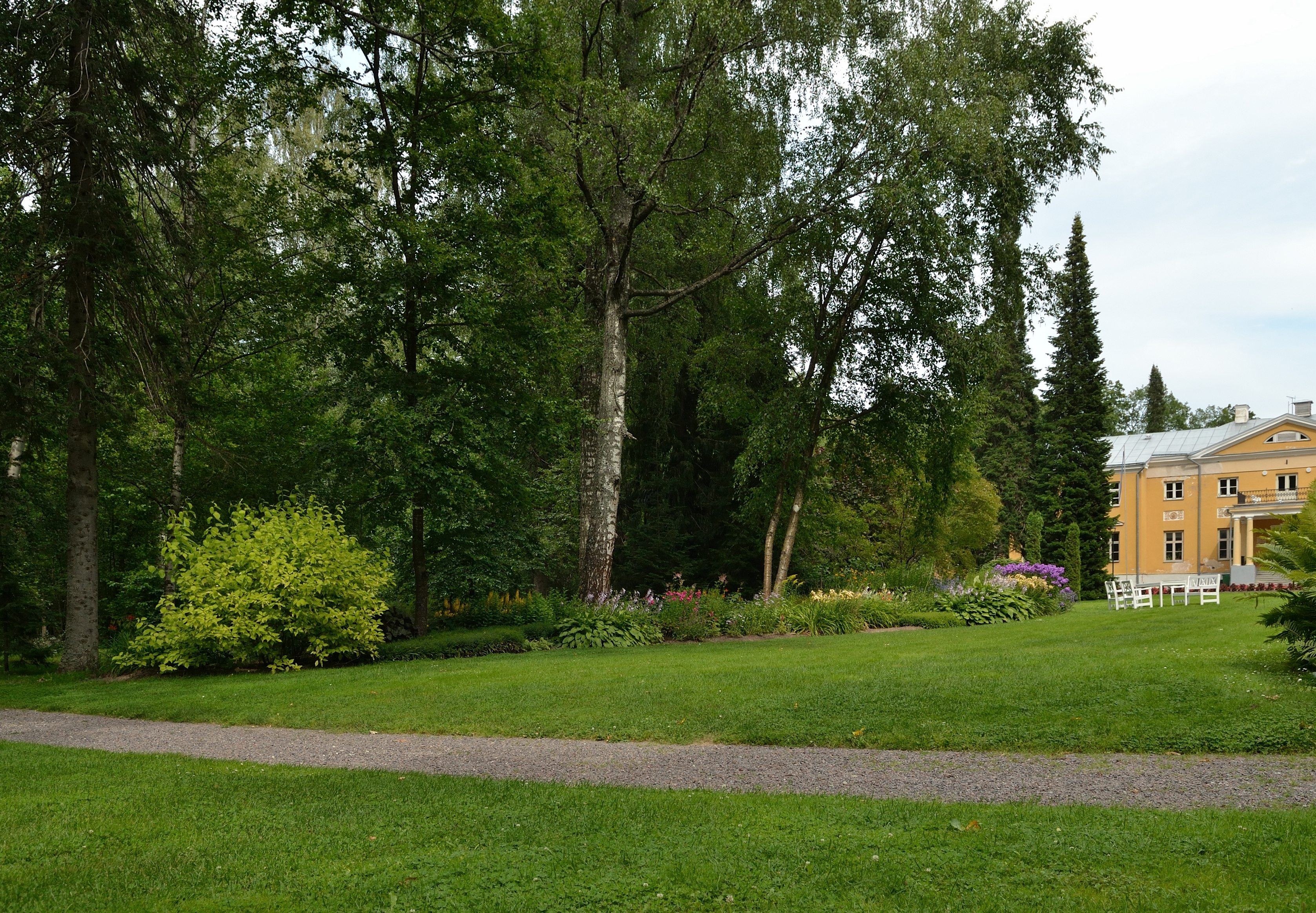 Räpina manor park